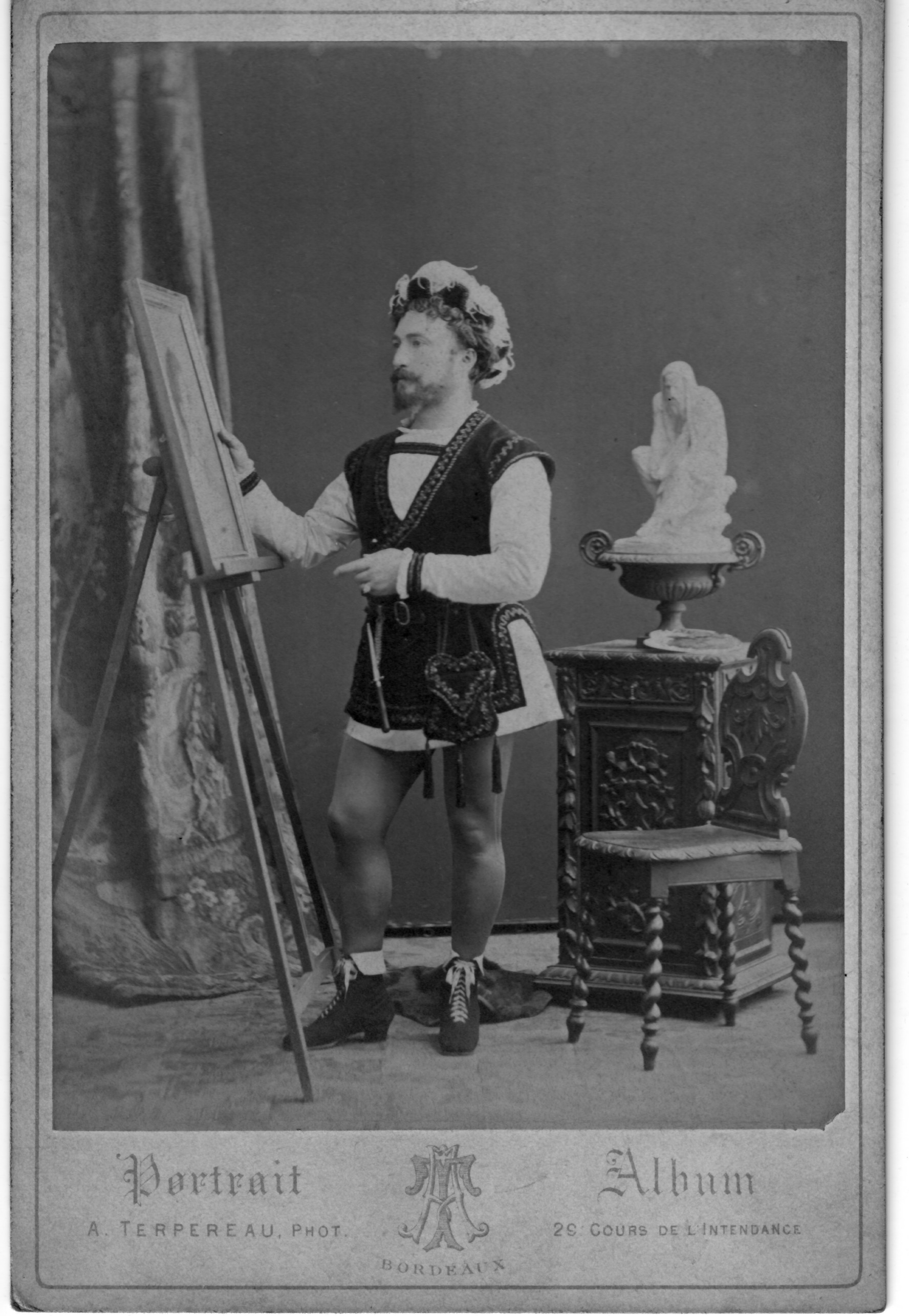 Ulysse Toussaint, french ténor (1839-1919) stage name: du Wast ou Duwast in stage costume in Bordeaux